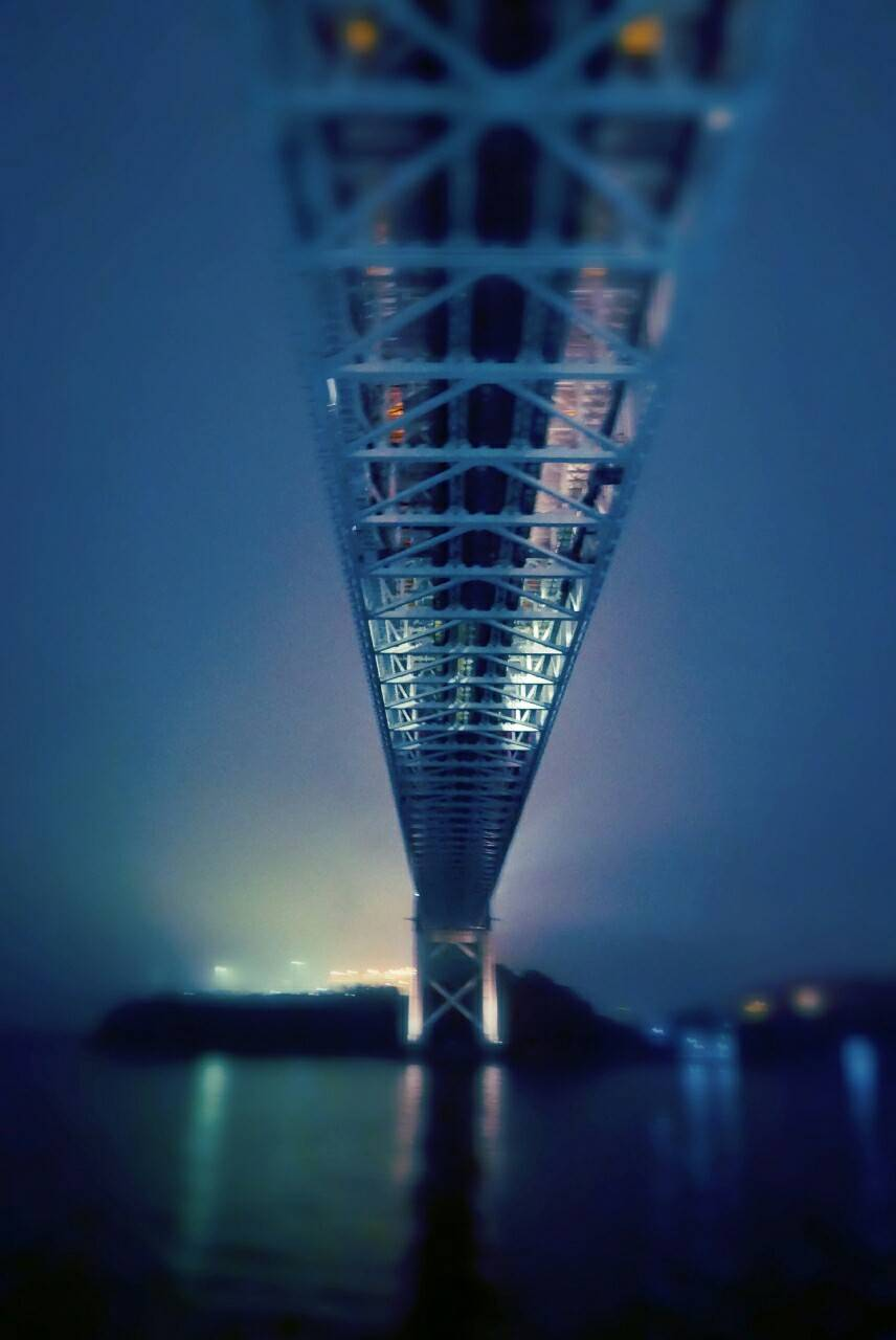 The Great Seto Bridge at night, seen from the Ferry Fukuoka 2